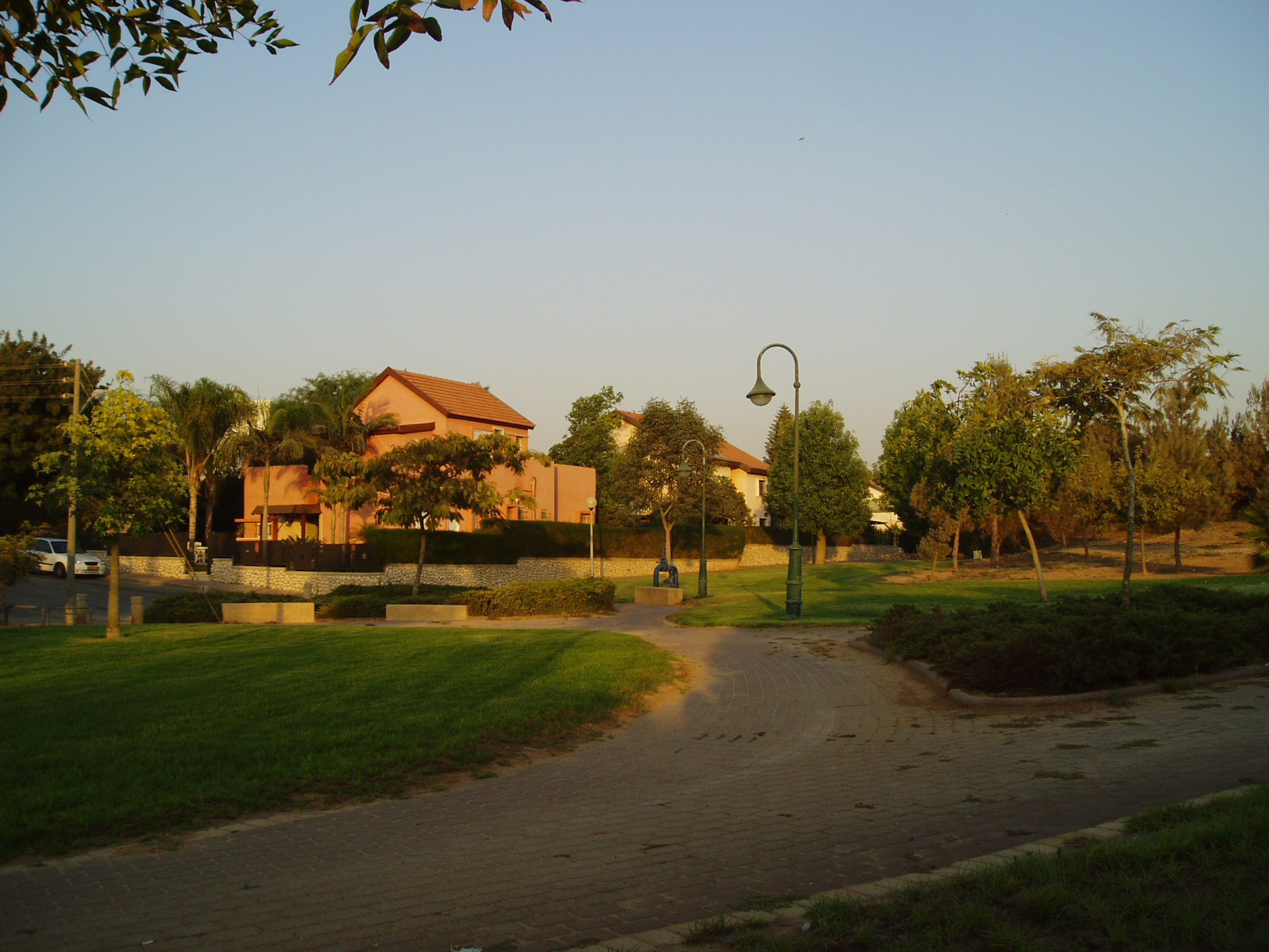 Lehavim, Israel. Pedestrian walkway at the end of Gome Street